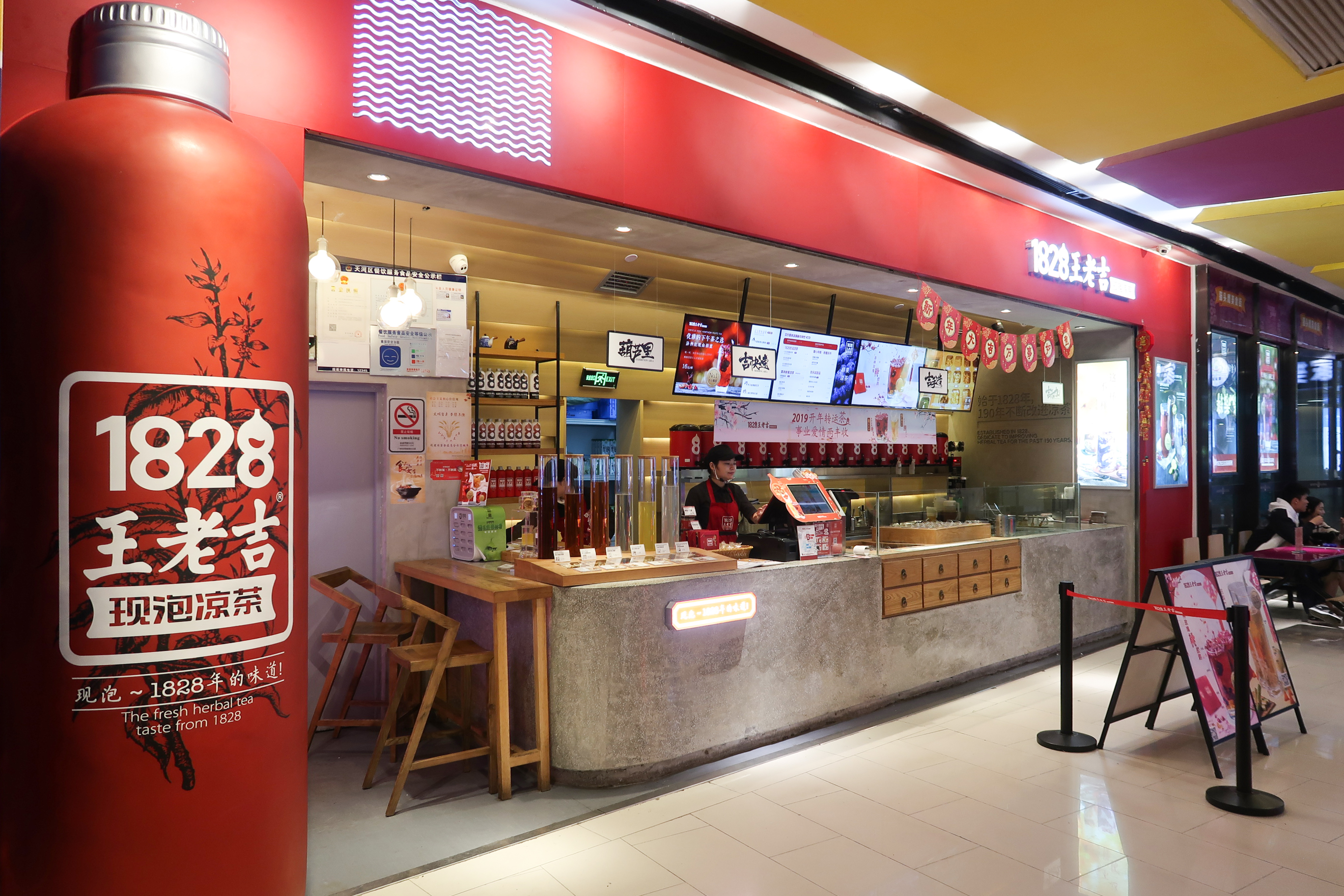 Wong Lo Kat in Guangzhou Mall of the World